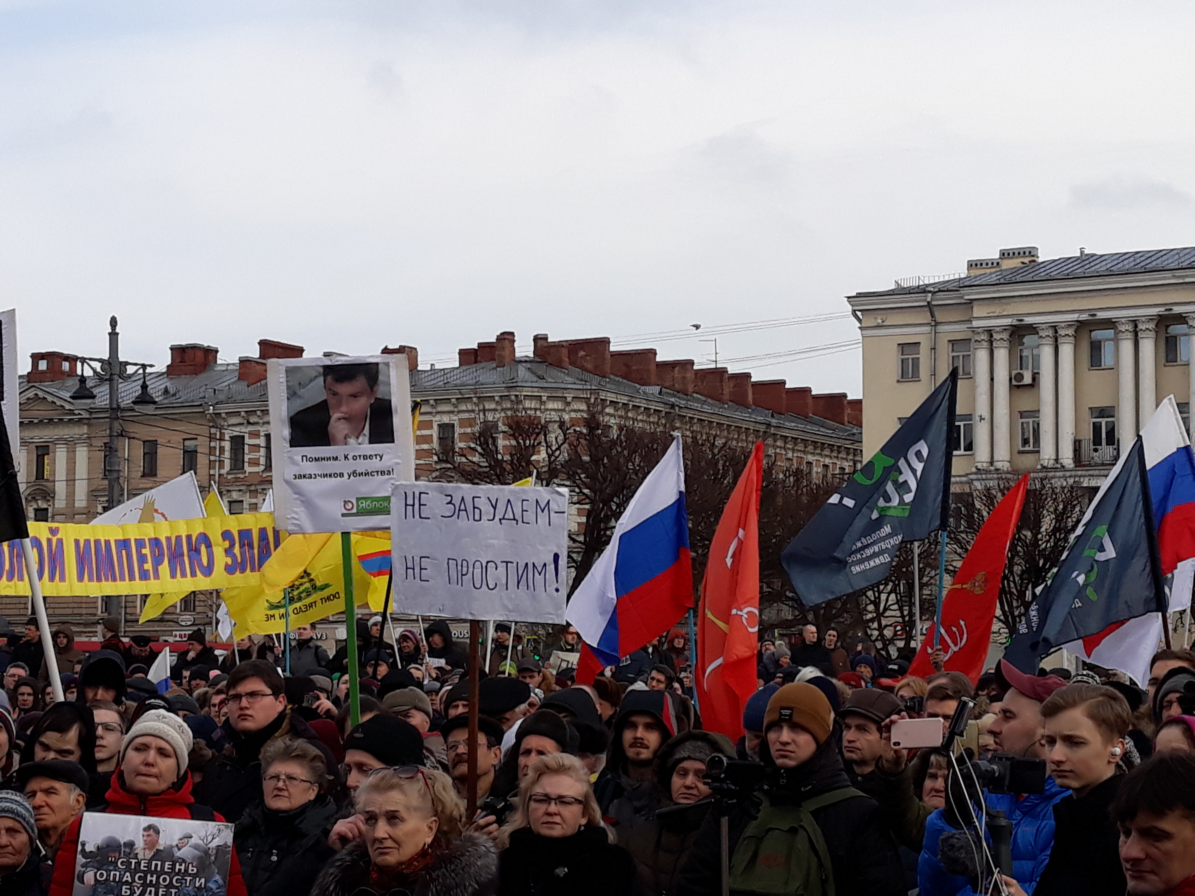 March in memory of Boris Nemtsov in Saint Petersburg (2019-02-24)